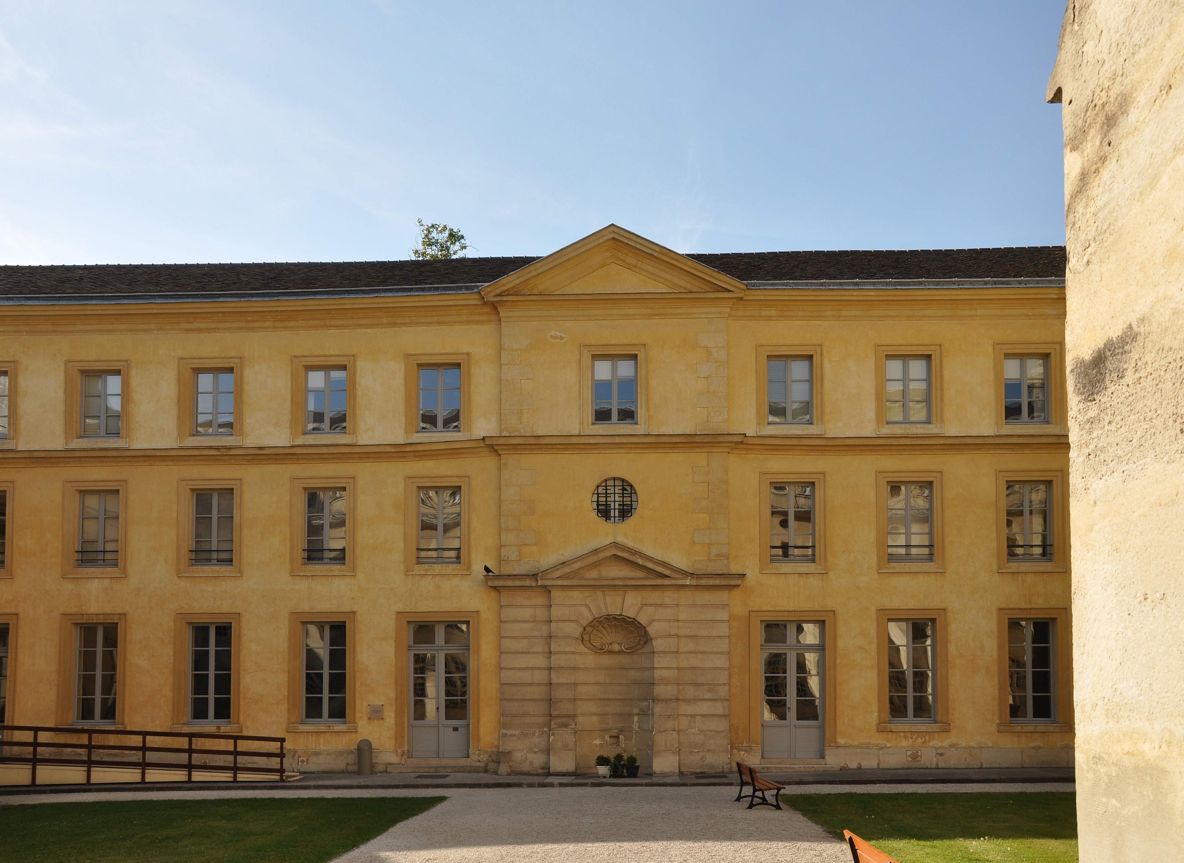 Courtyard Broussais of the cloister of Val-de-Grâce in the 5th arrondissement of Paris in France.